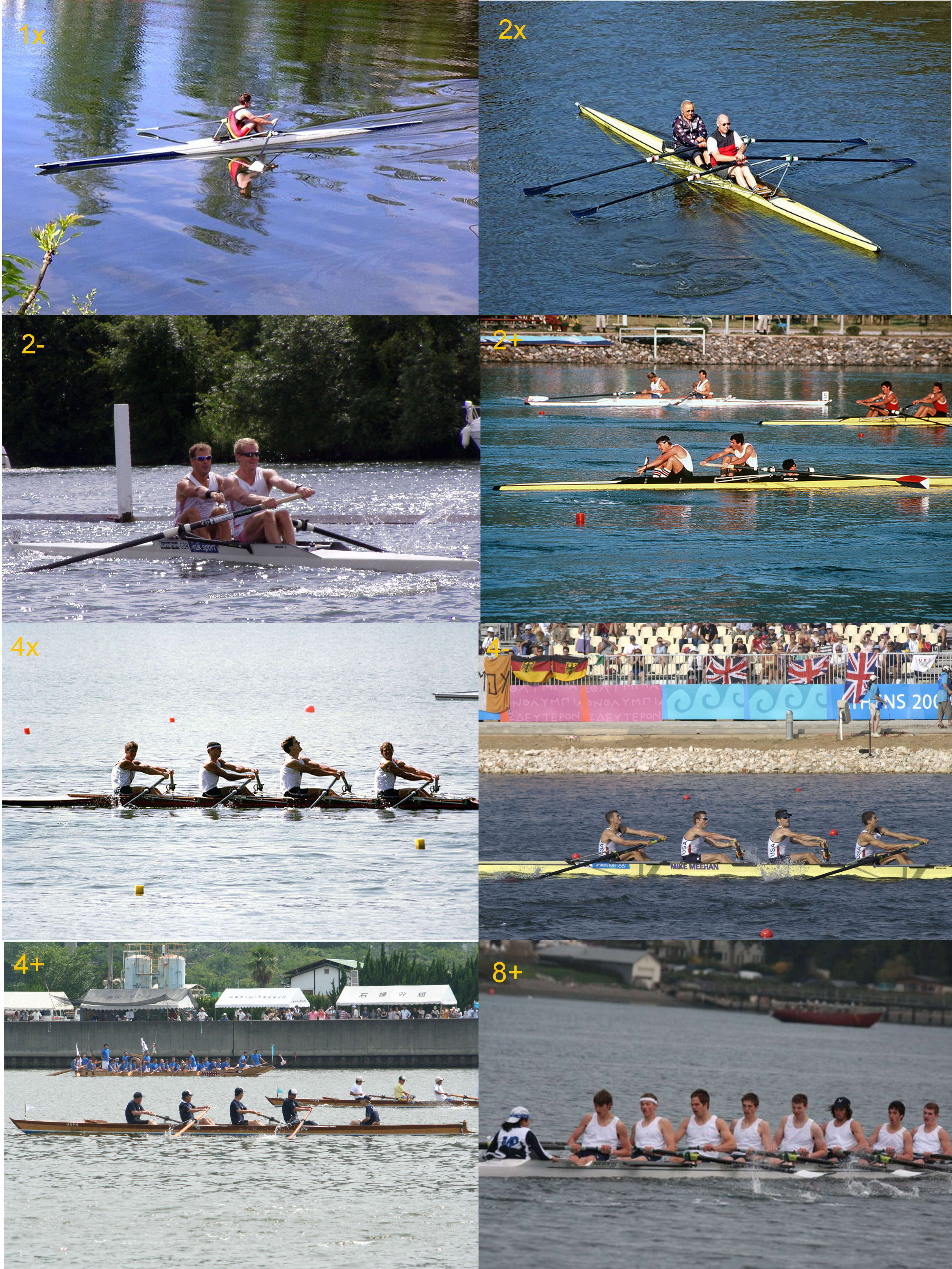 Rowing racing boats